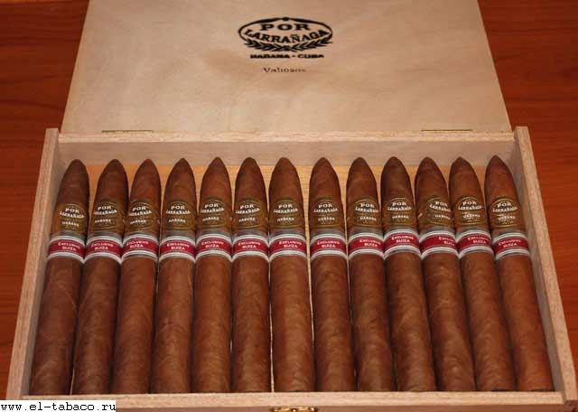 Cigars